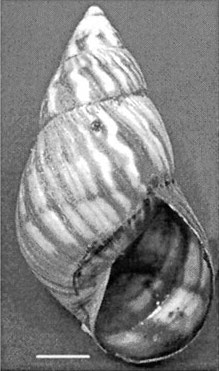 Black and white photo of the apertural view of the shell of Orthalicus undatus jamaicensis, synonym: Orthalicus jamaicensis from Jamaica. Scale bar = 1 cm.